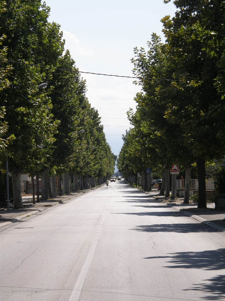 Chieti